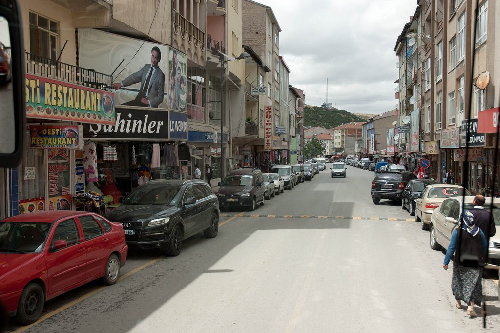 Akdagmadeni market street (2011)